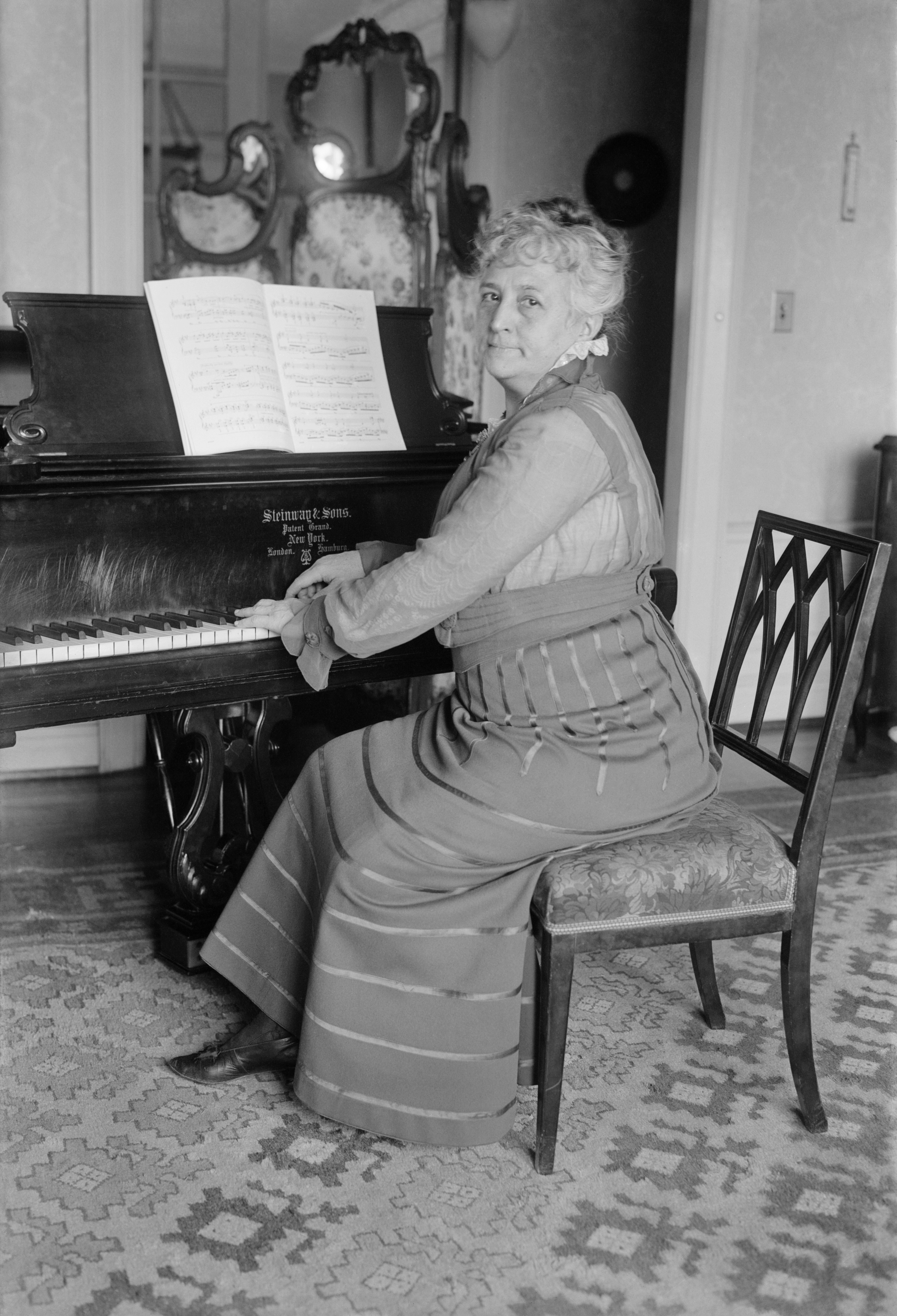 Venezuelan pianist, singer, and composer Teresa Carreño (1853-1917) at the piano